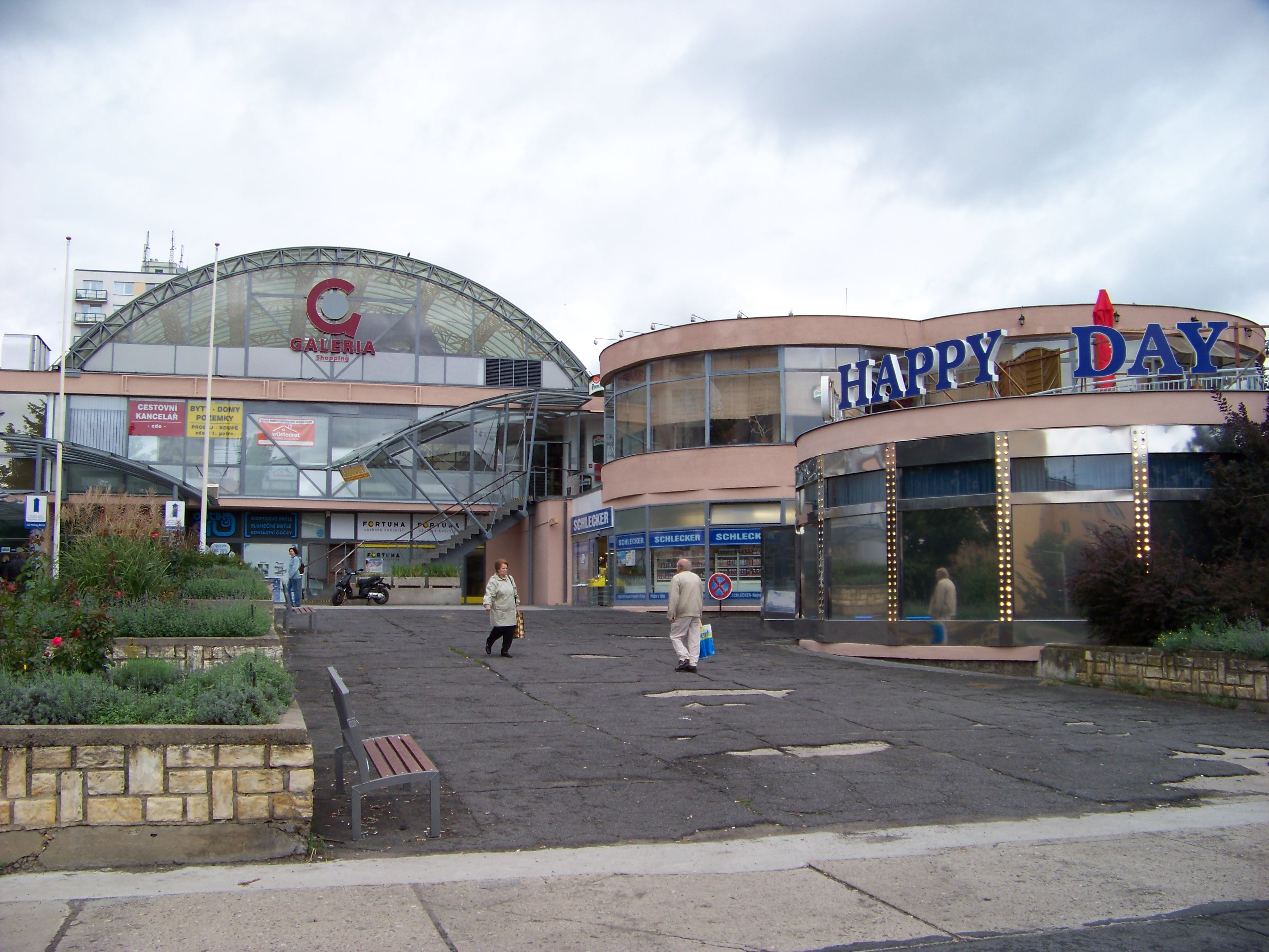 Prague-Záběhlice-Zahradní Město, the Czech Republic. A shopping centre in Topolová street with a casino.